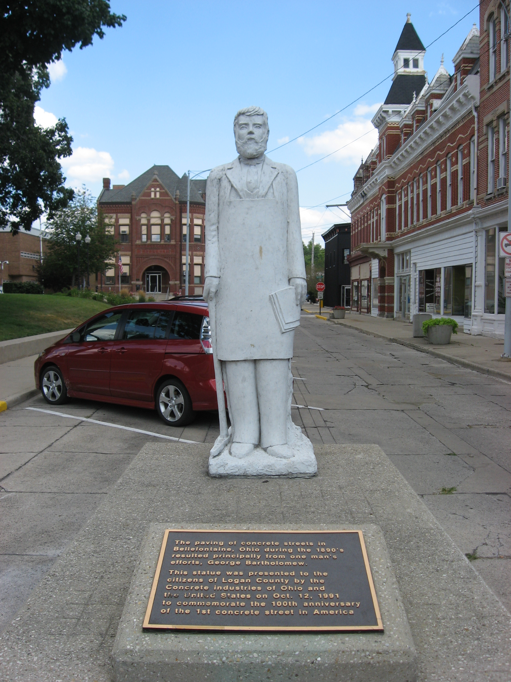 Statue of George Bartholomew on Court Avenue in Bellefontaine, Ohio, United States. The street, which is listed on the National Register of Historic Places, is recognized for being the first concrete-paved street in the country; Bartholomew invented the concrete-paving process used for this street.